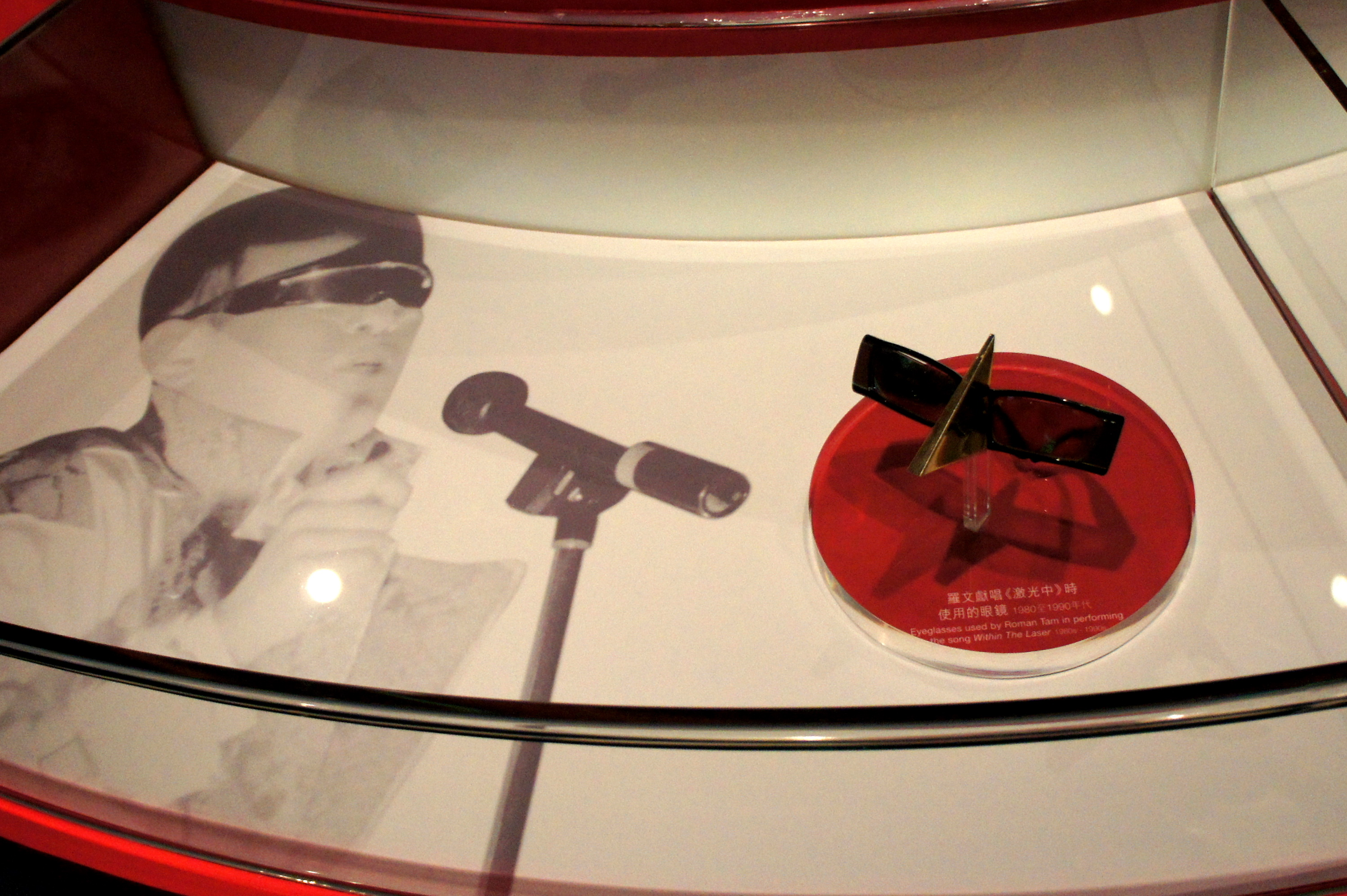 Eyeglasses used by Roman Tam in performing the song "Within The Laser" (1980s-1990s). Hong Kong Heritage Museum exhibition: Applauding to Hong Kong Pop Legend - Roman Tam. (21 December 2011 - 30 July 2012)